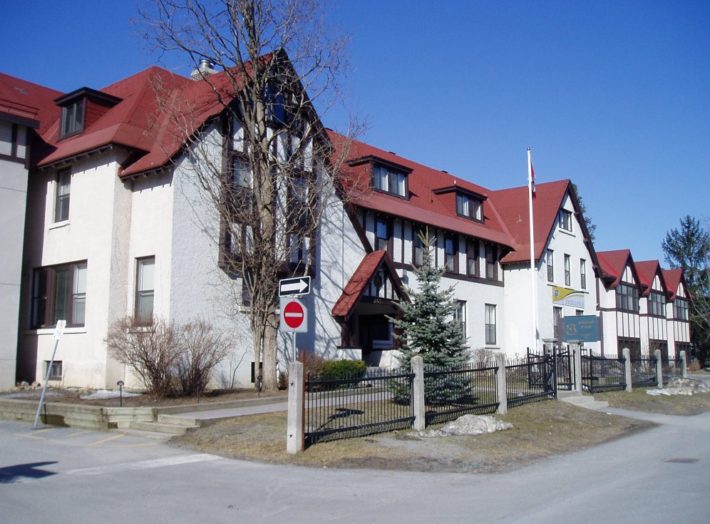 Elmwood School (Ottawa), taken by SimonP